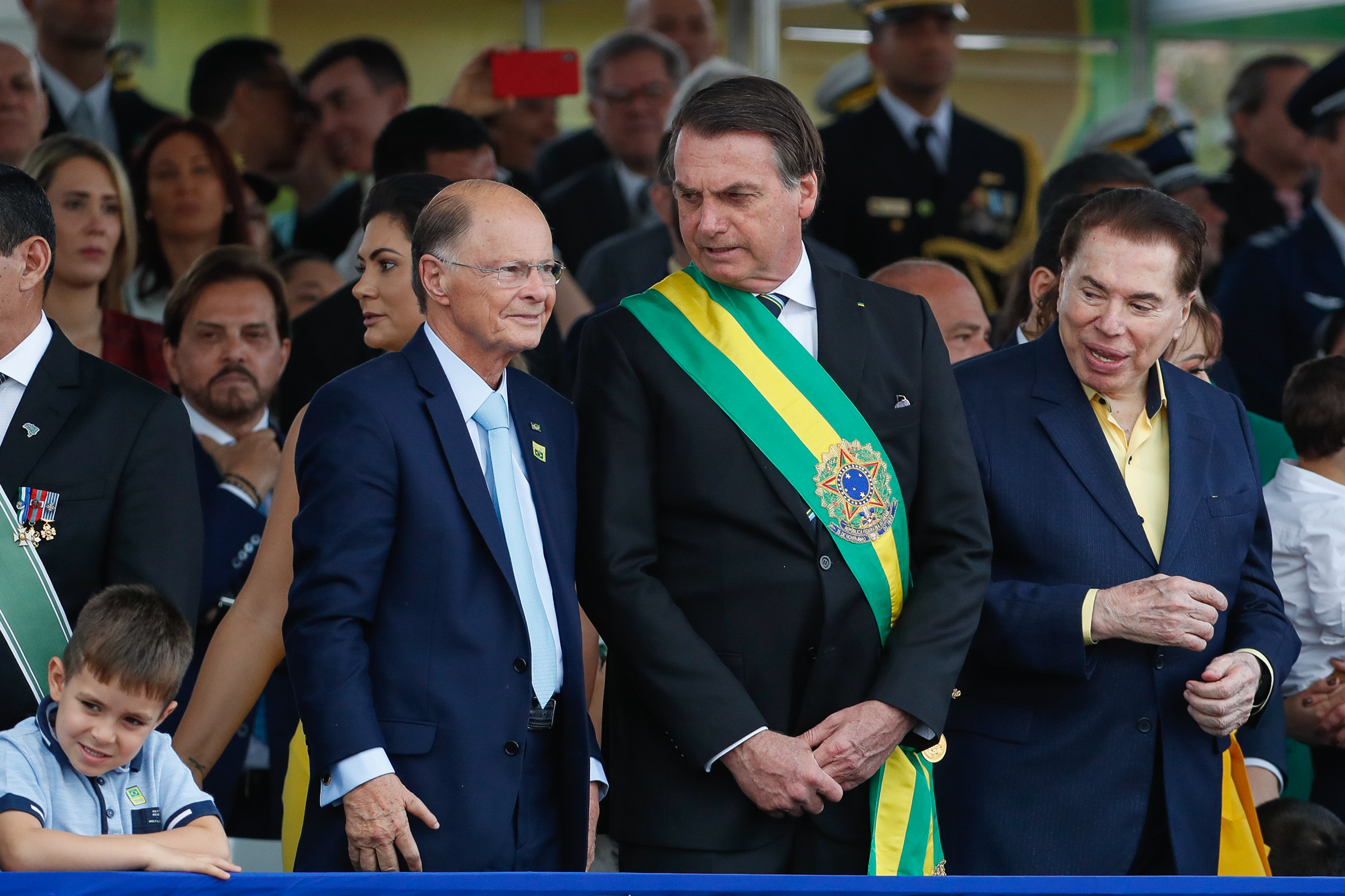 (Brasília - DF, 07/09/2019) Presdiente da República, Jair Bolsonaro, durante desfile Cívico por ocasião do Dia da Pátria Foto: Alan Santos/PR